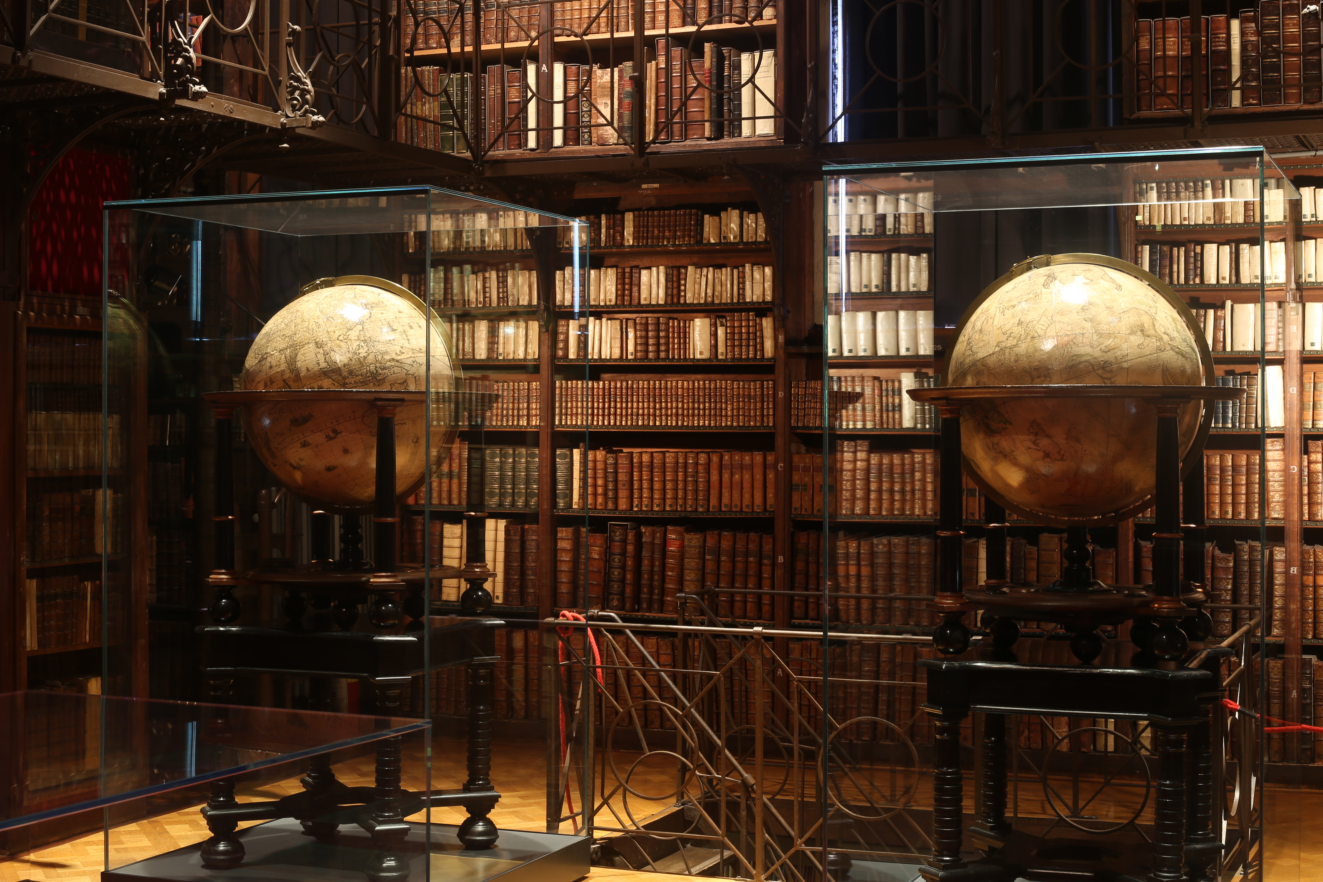 Geographical and Celestial globe, Hendrik Conscience Heritage Library, Antwerp, Belgium This is a file created at the museum: Hendrik Conscience Heritage Library in Antwerp